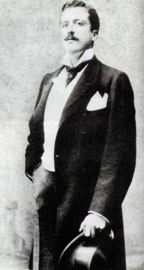 Portrait photo of António Nicolau d'Almeida, founder of F.C. Porto (1893).